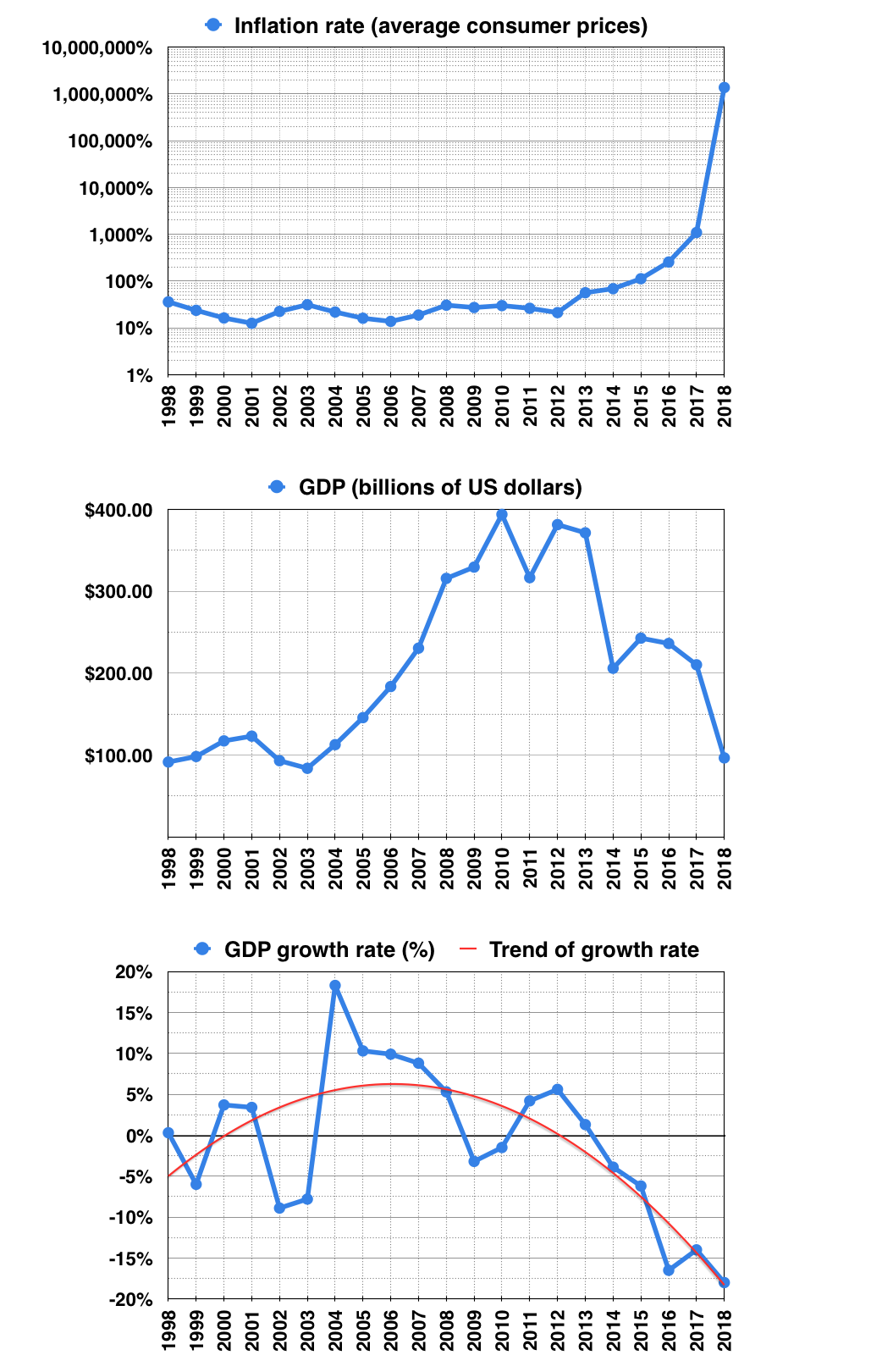 2014 Venezuela Economic Indicators